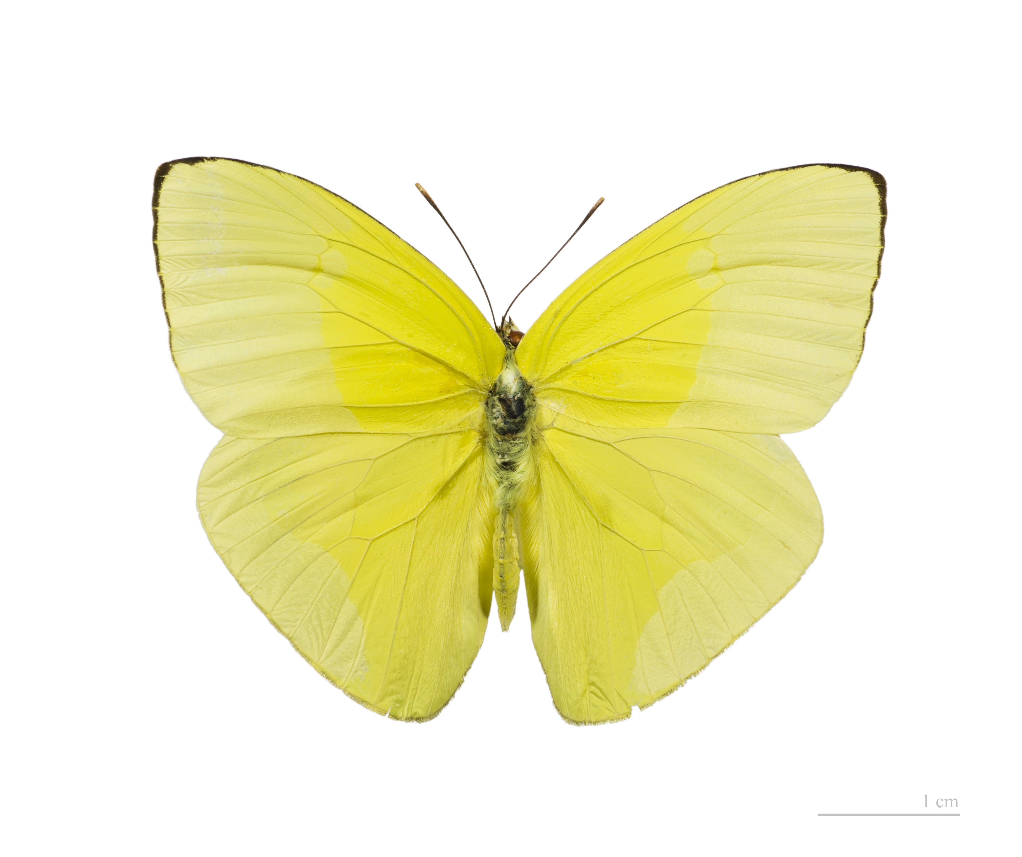 Rio de Janeiro Sulphur ♂ - Dorsal side Locality: Piste Risquetout, crique Balata, Montsinéry, French Guianna.